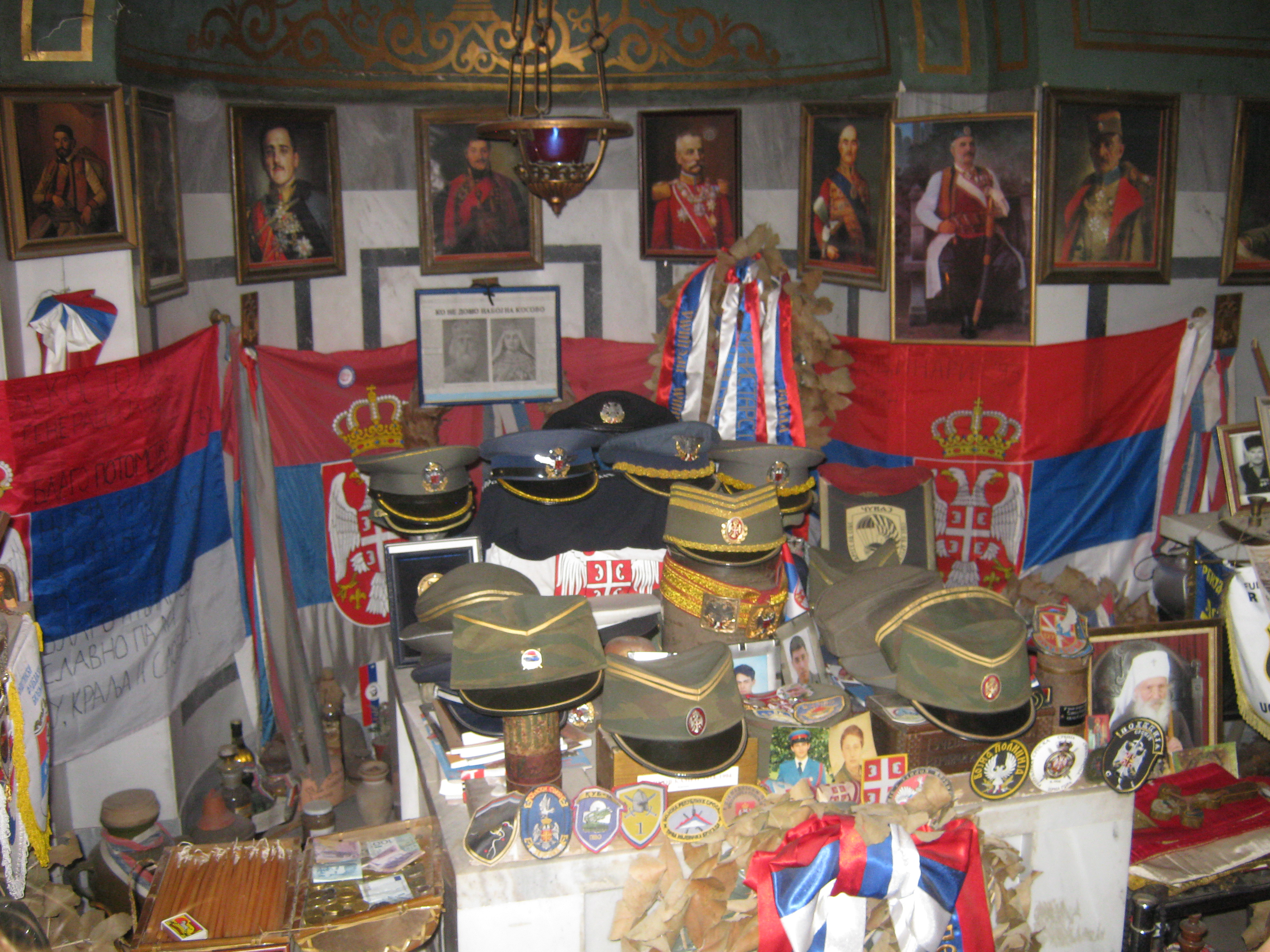 Zeitenlik tomb, inward area.